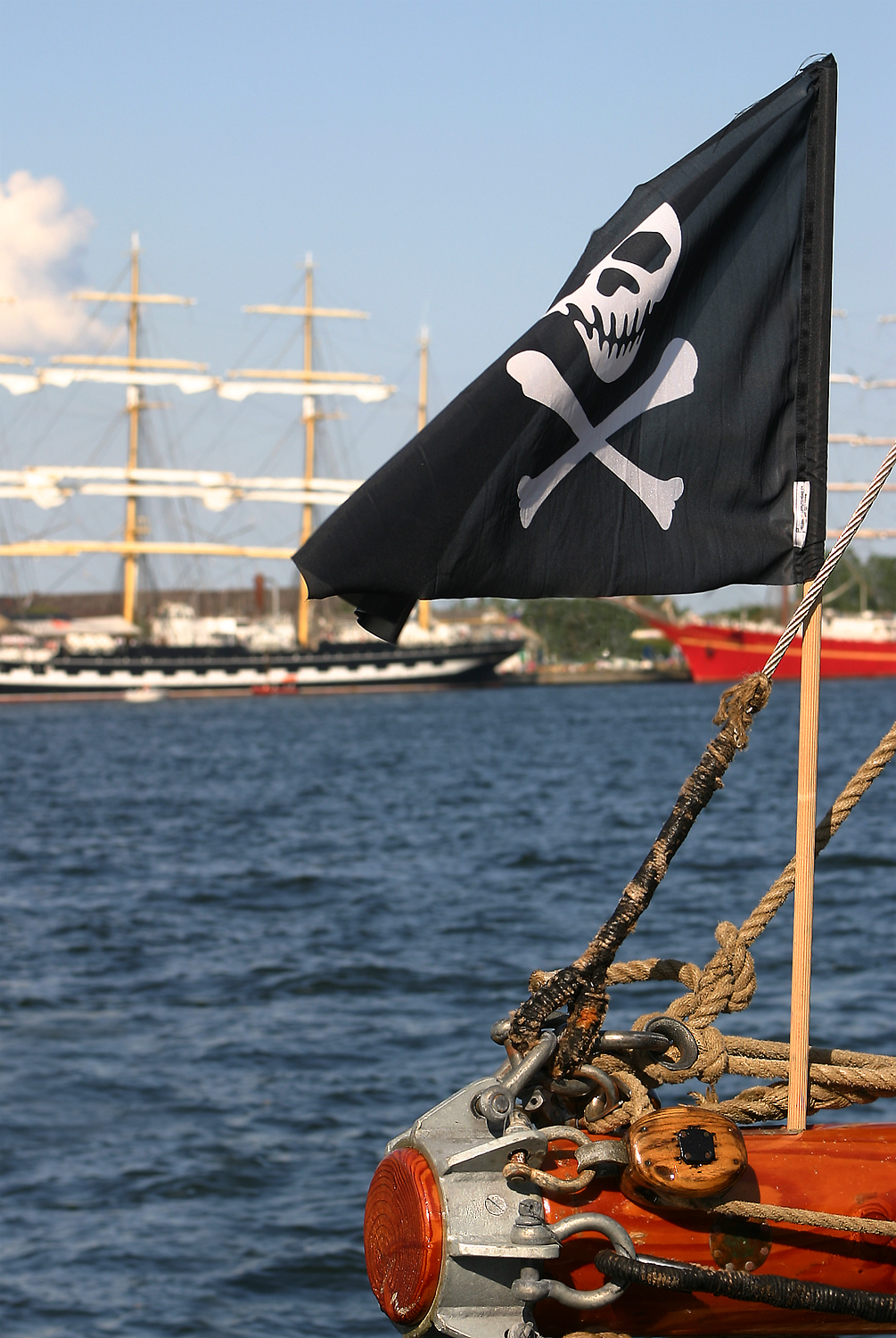 Jolly Roger flag at Tall Ships Race, Aalborg, Denmark. In the background: Kruzenshtern and Khersones